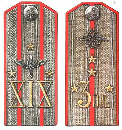 Rank insignia of the Imperial Russian Army 1909-1917, here shoulder straps Air Force: Lieutenant colonel and Stabs-kapitan ).